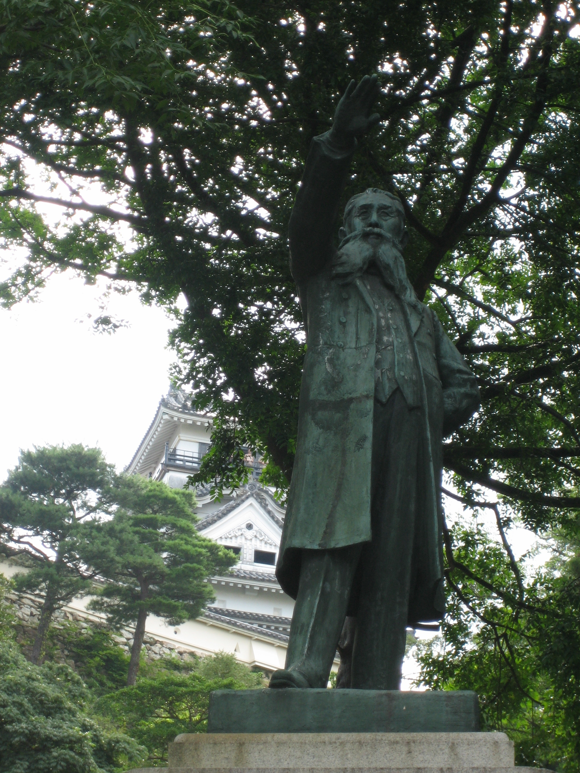 Statue of Itagaki Taisuke in Kochi castle